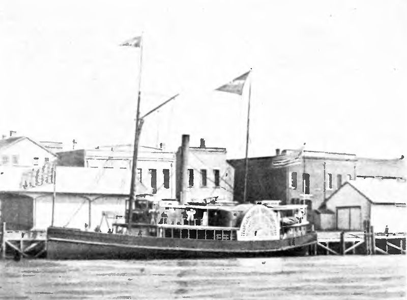 steamboat Eliza Anderson sometime before 1895